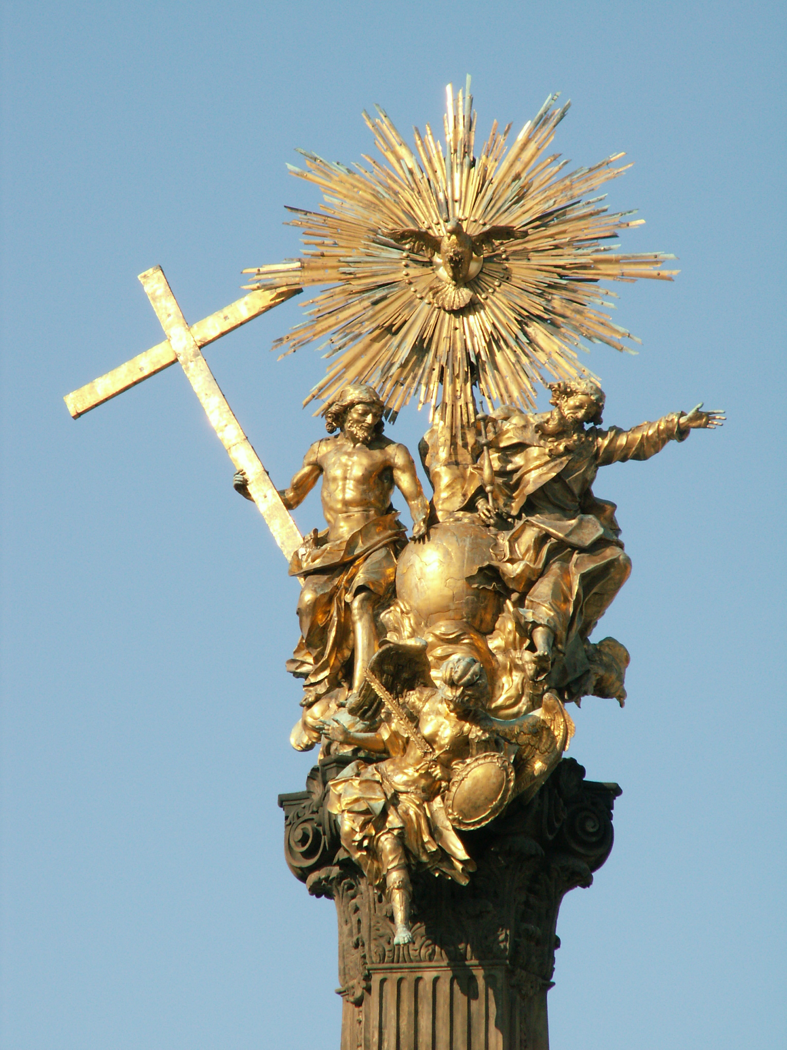 Statue of the Holy Trinity on the top of the Holy Trinity Column in Olomouc, the Czech Republic. God the Father and the Son stand on the sides of the Earth, the Holy Spirit is placed above them and Archangel Michael with a sword and a shield below them. The statue was made by Olomouc goldsmith Simon Forstner, who lost his health when working on the sculptures and using toxic mercury compounds during the gilding process.